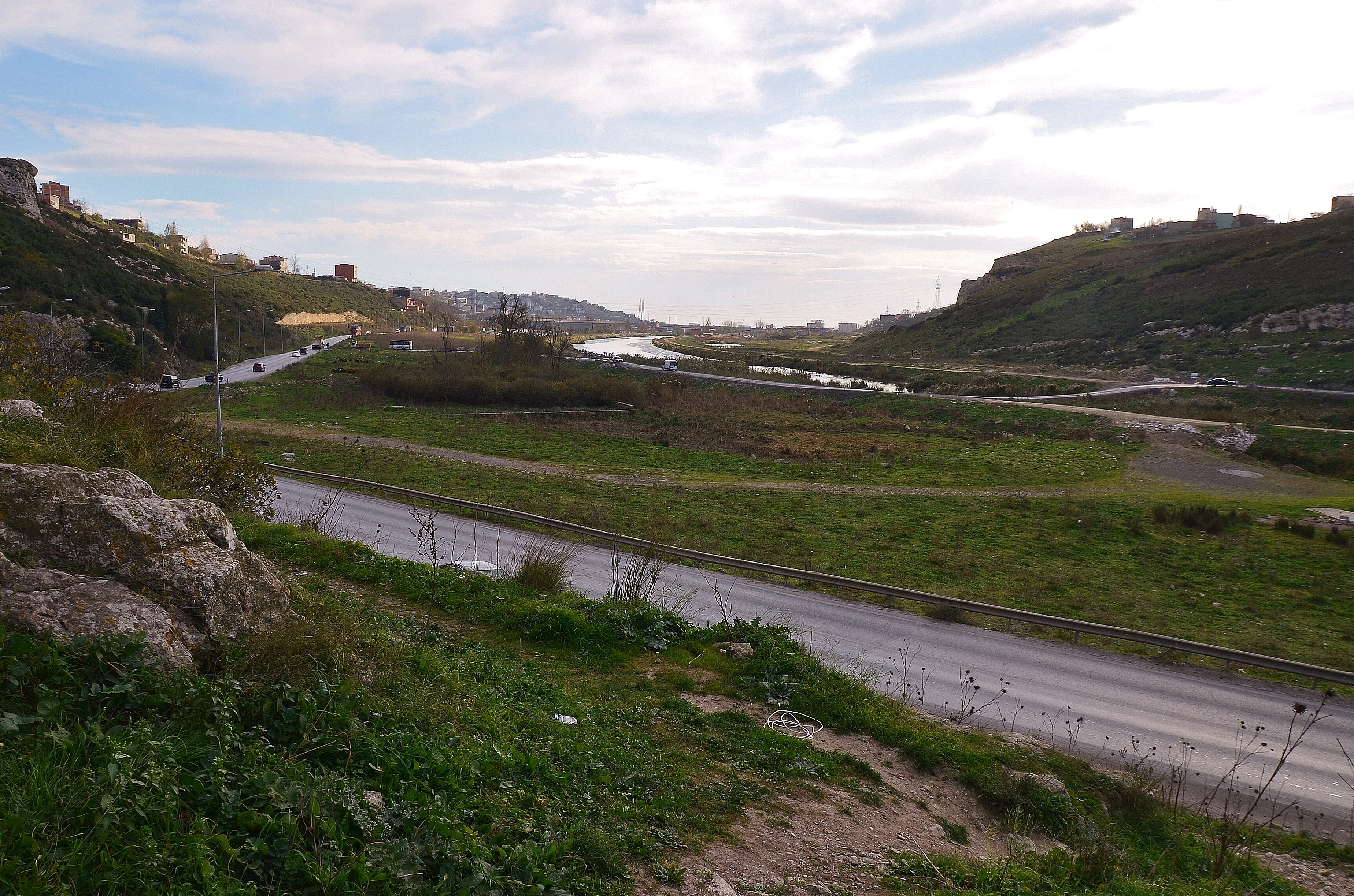 A view into the Sazlıdere valley and Büyükçekmece Lake seen from the Yarımburgaz Cave in Başakşehir, Istanbul, Turkey